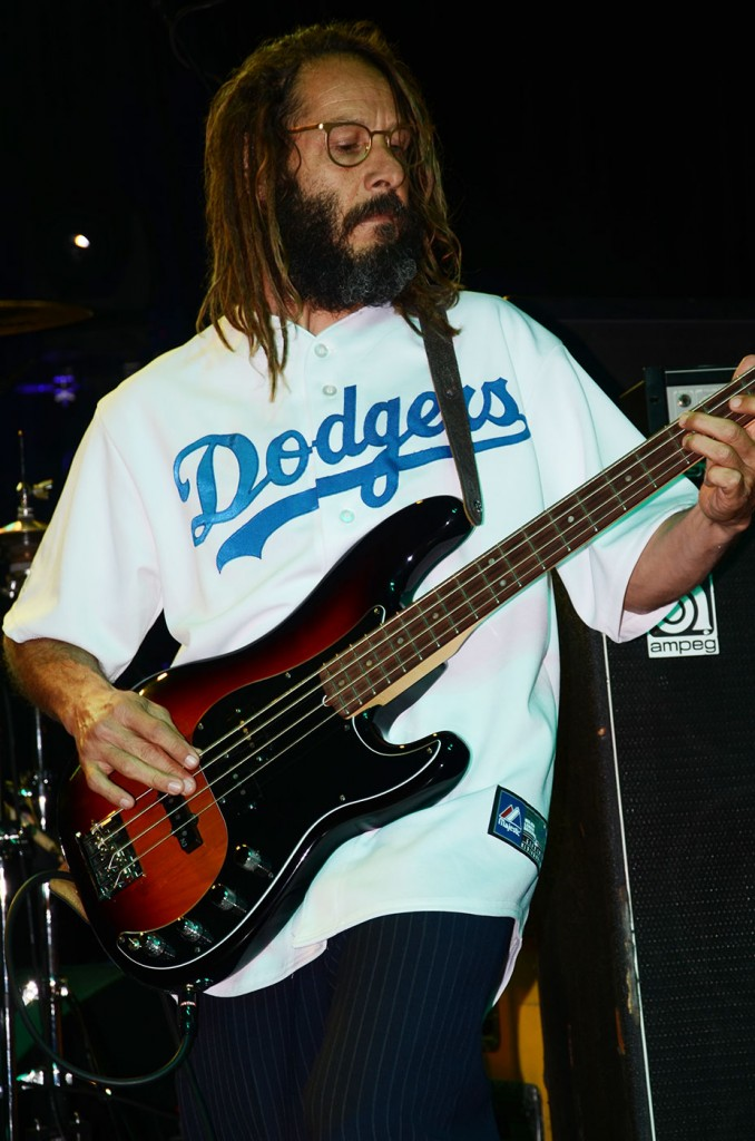 Tony Alva playing bass guitar with G.F.P. (General Fucking Principle) at The Observatory in Santa Ana, CA on December 14, 2012